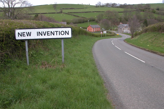 New Invention. Curiously named New Invention, a small hamlet on the A488 between Clun and Knighton.